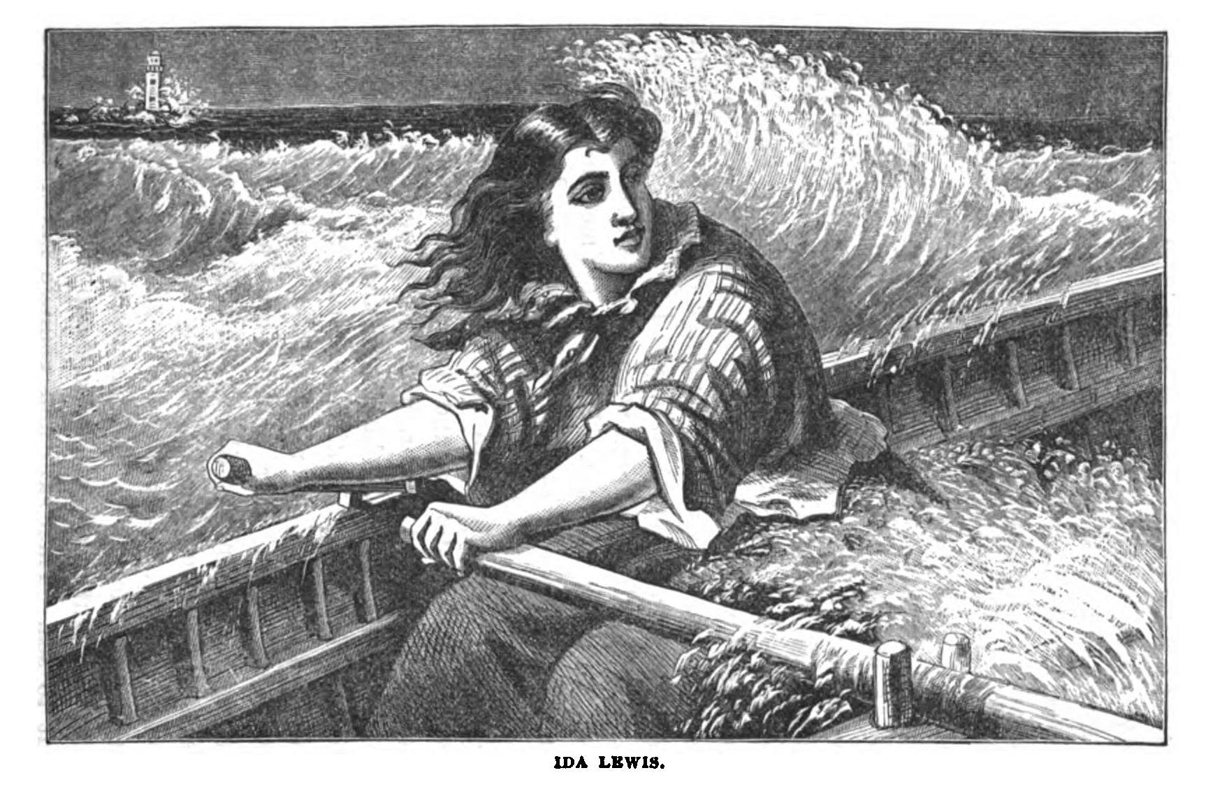 Woodcut of Ida Lewis, light-house keeper